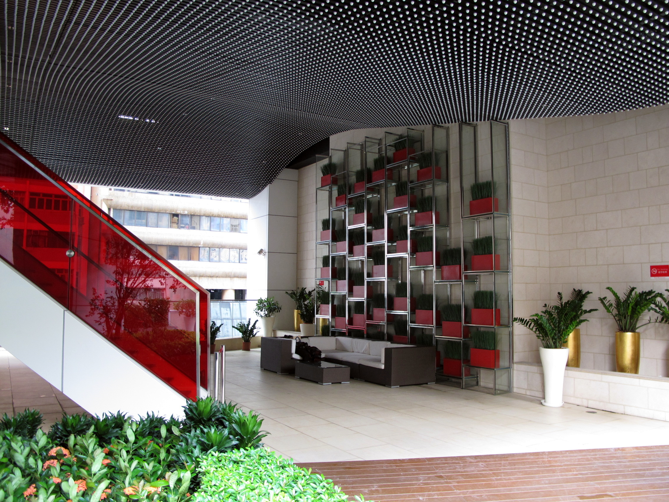 The Hennessy, Wan Chai